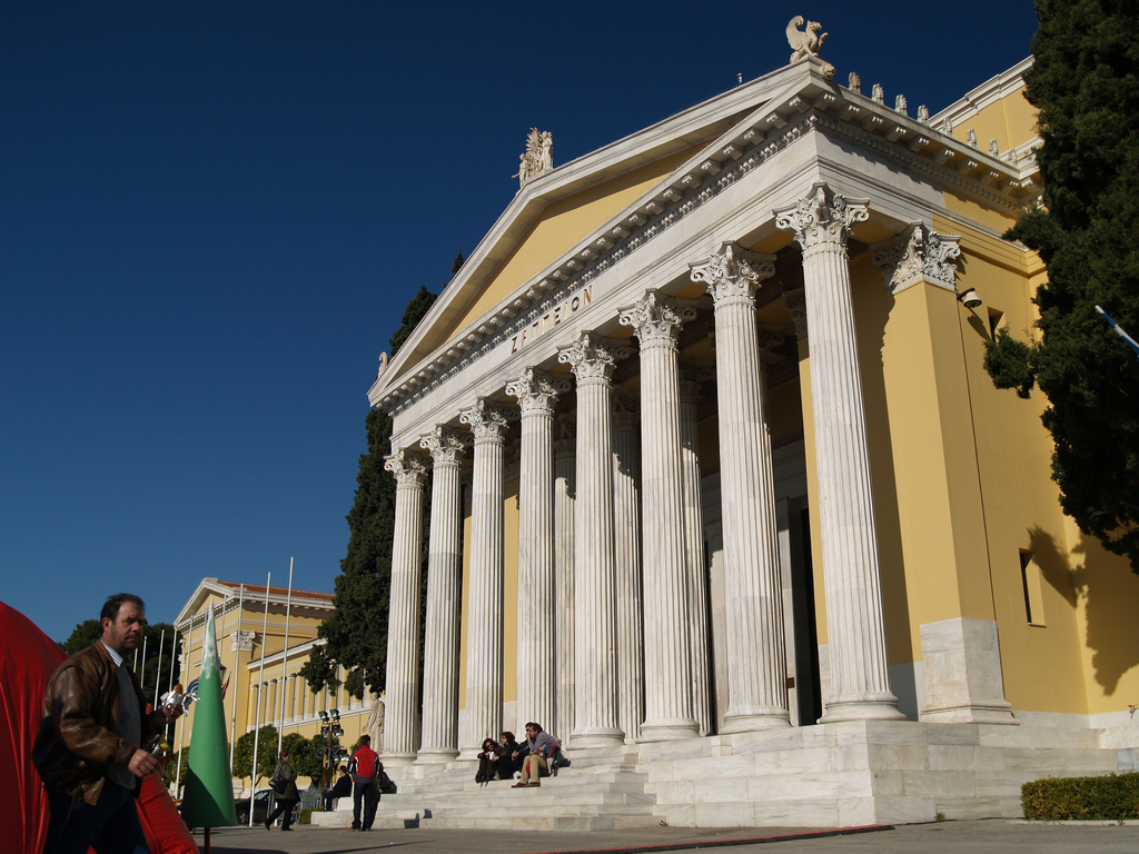 The Zappeion in central Athens. 2007